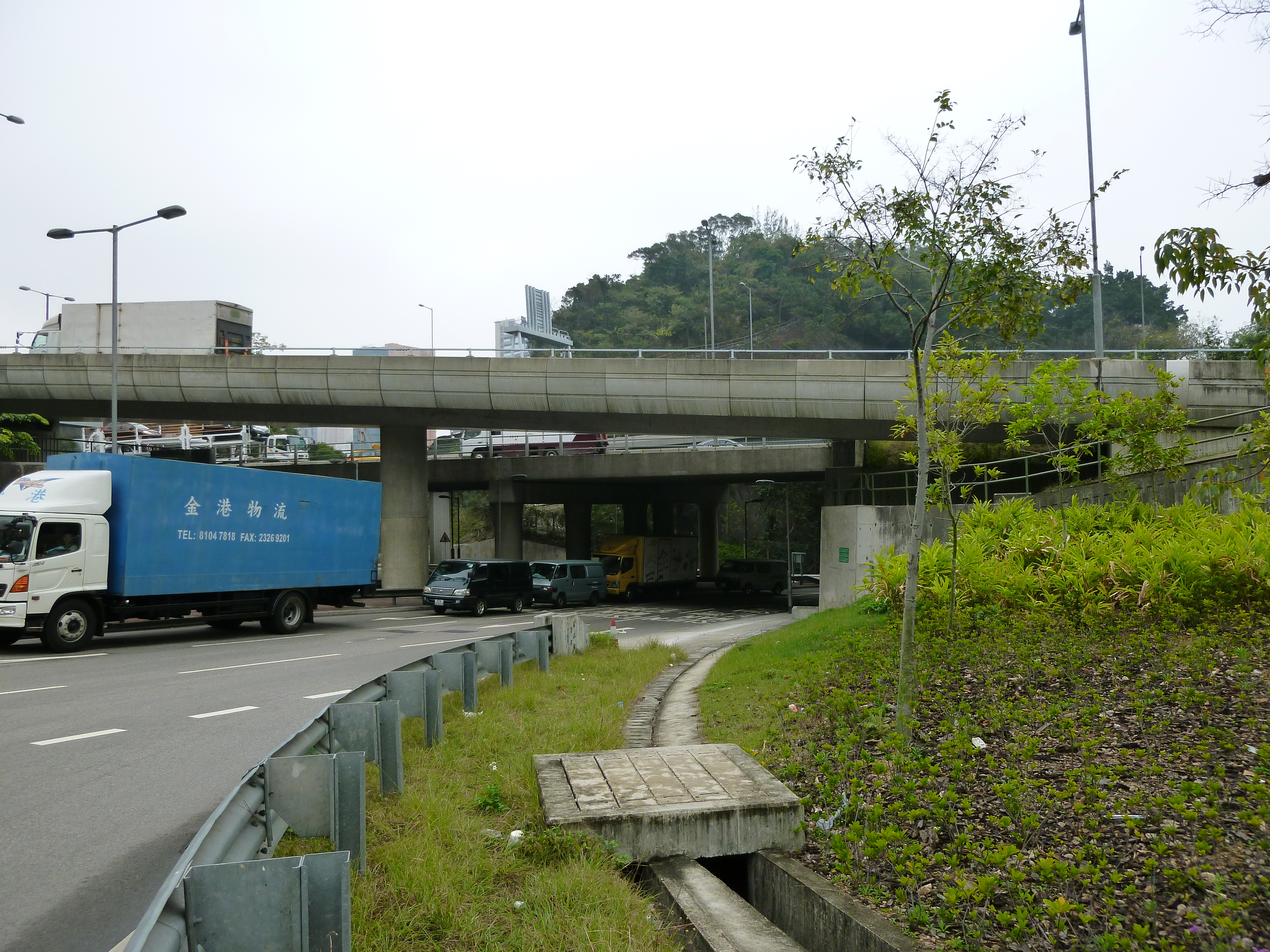 Butterfly Valley Interchange (Lai Chi Kok, Kowloon, Hong Kong)